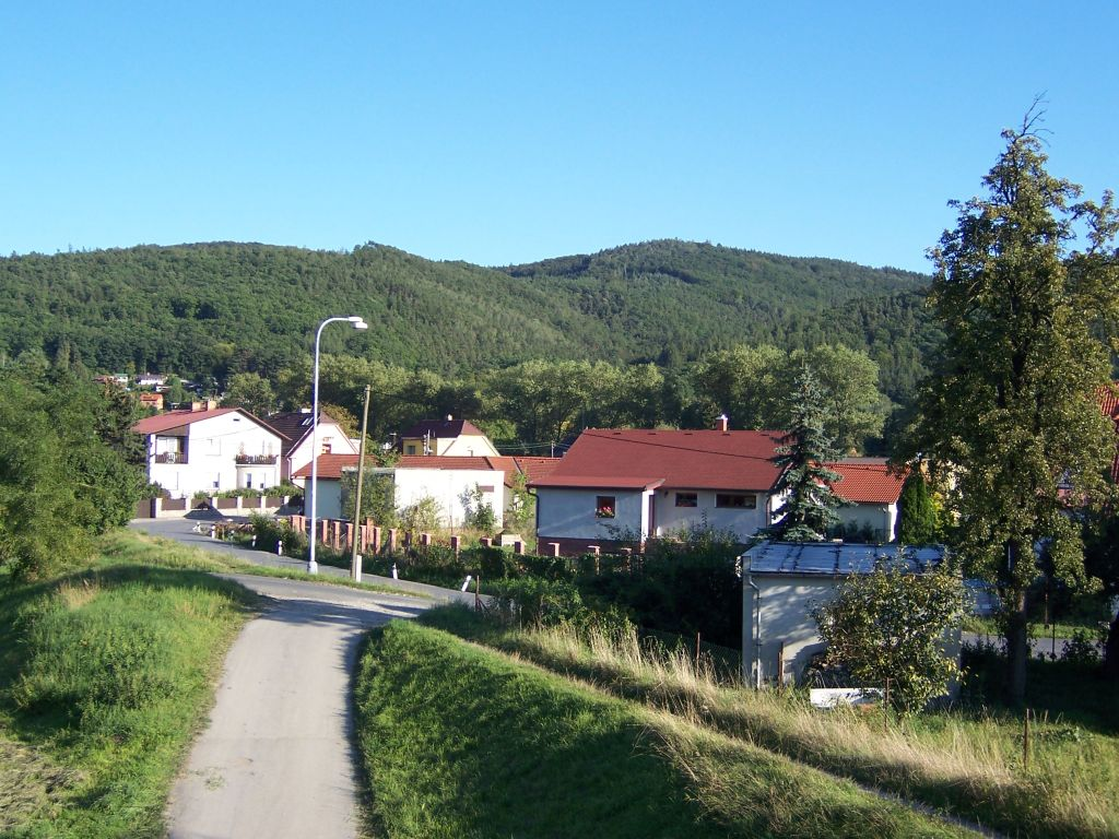 Lety (Prague-West District, Czech Republic) as seen from the west